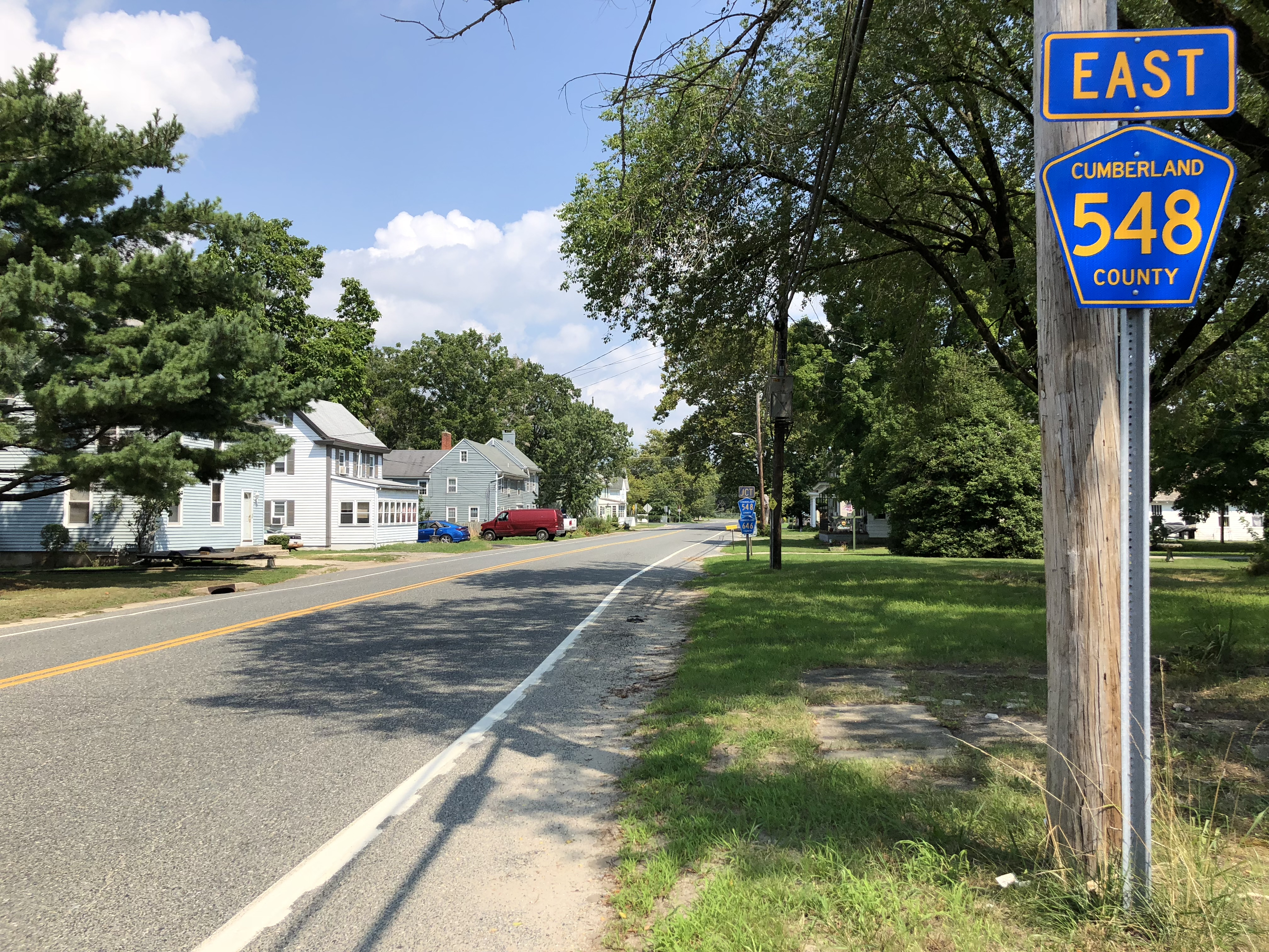 View east along Cumberland County Route 548 (Broadway) just east of New Jersey State Route 47 (Delsea Drive) in Maurice River Township, Cumberland County, New Jersey